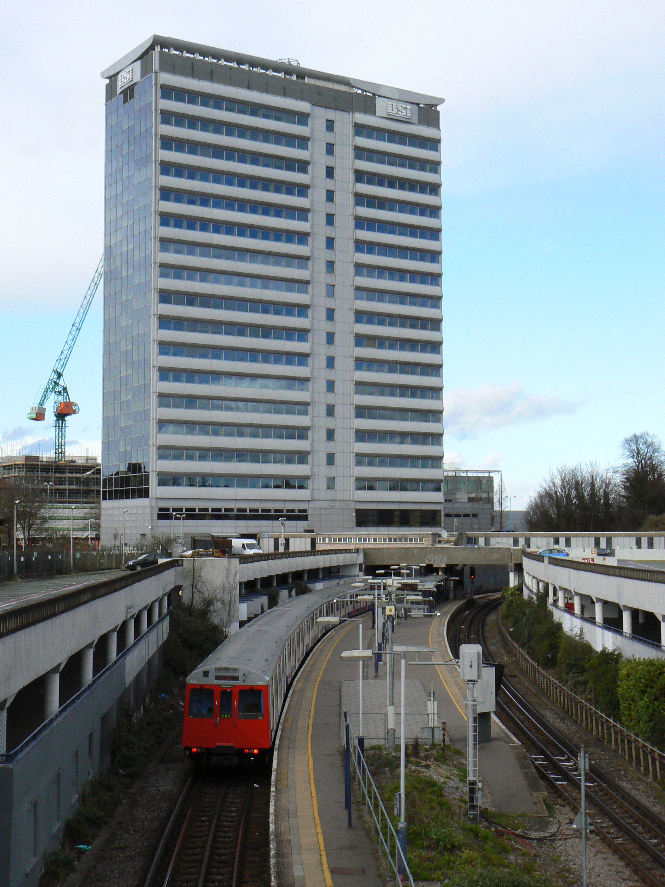 British Standards Institute building over Gunnersbury station, London, U.K.